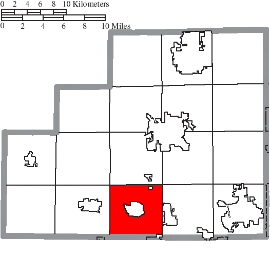 Map of the municipal and township boundaries of Medina County, Ohio, United States, as of the 2000 census, with the location of Westfield Township highlighted. Township borders are shown only in unincorporated areas in order to differentiate incorporated and unincorporated areas more clearly.